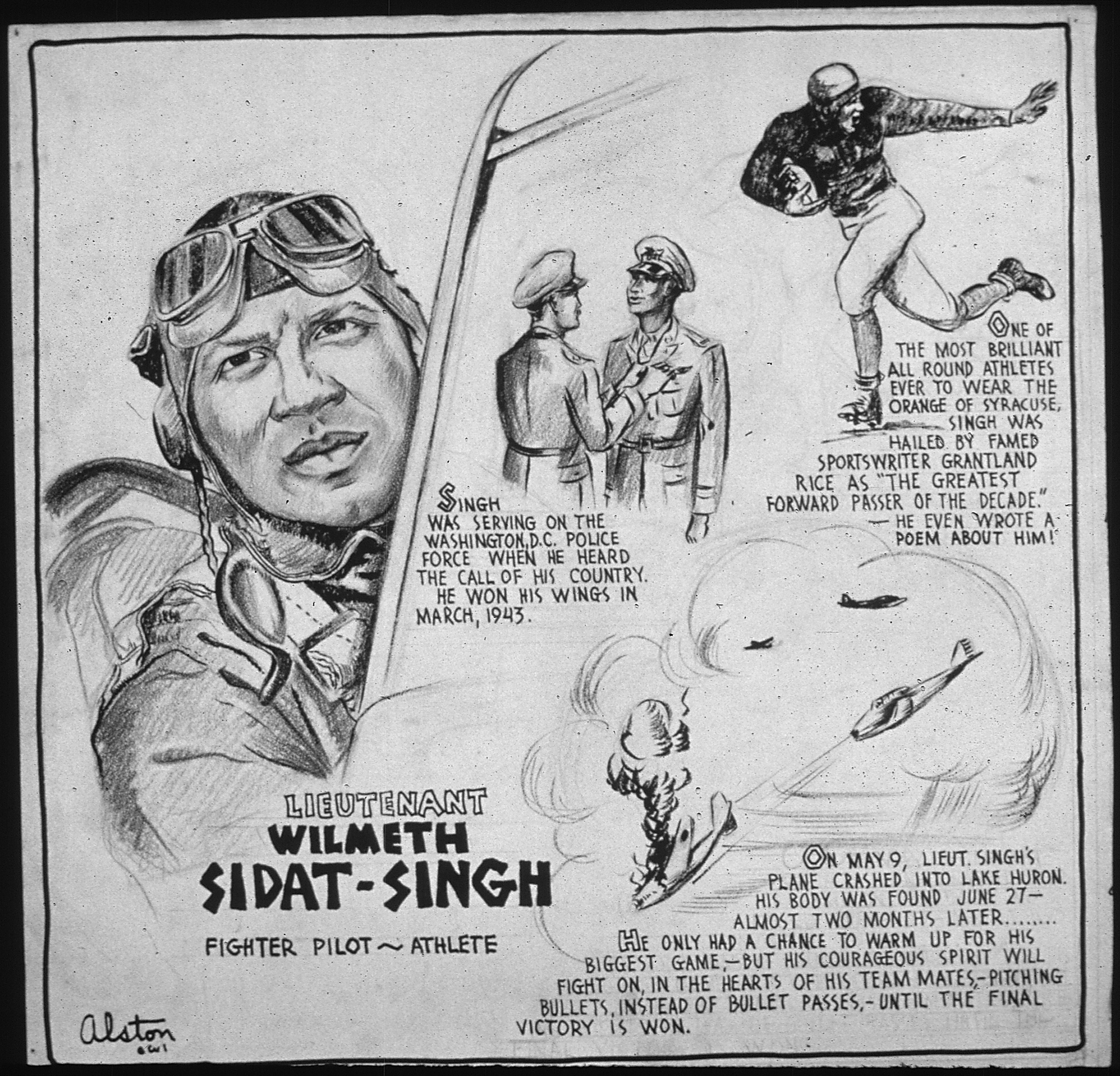 Scope and content: Lieutenant Wilmeth Sidat-Singh - with biographical paragraphs.